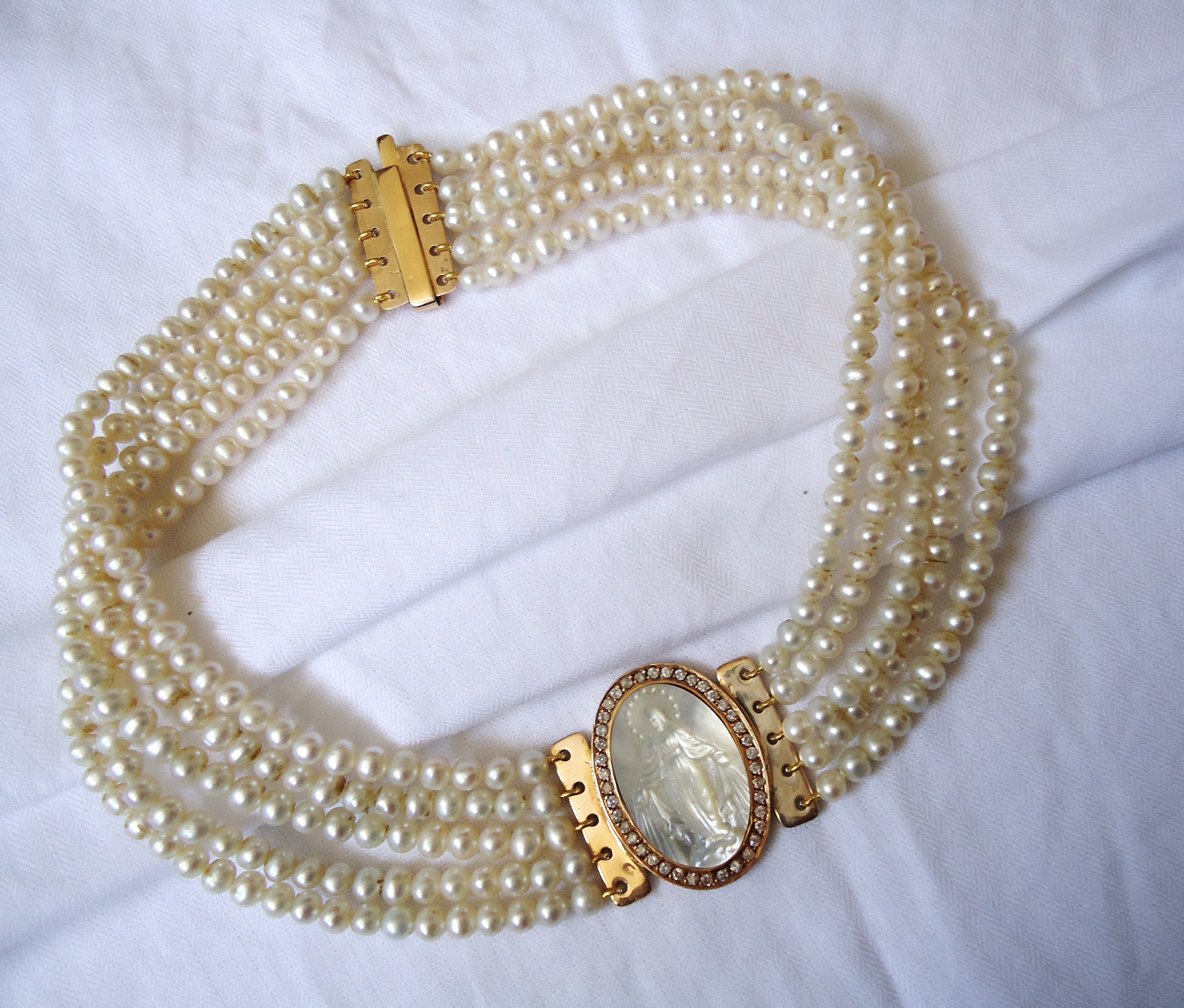 Gold, pearls, diamonds and nacre neckband. Made by Mauro Cateb, Brazilian jeweler and silversmith.